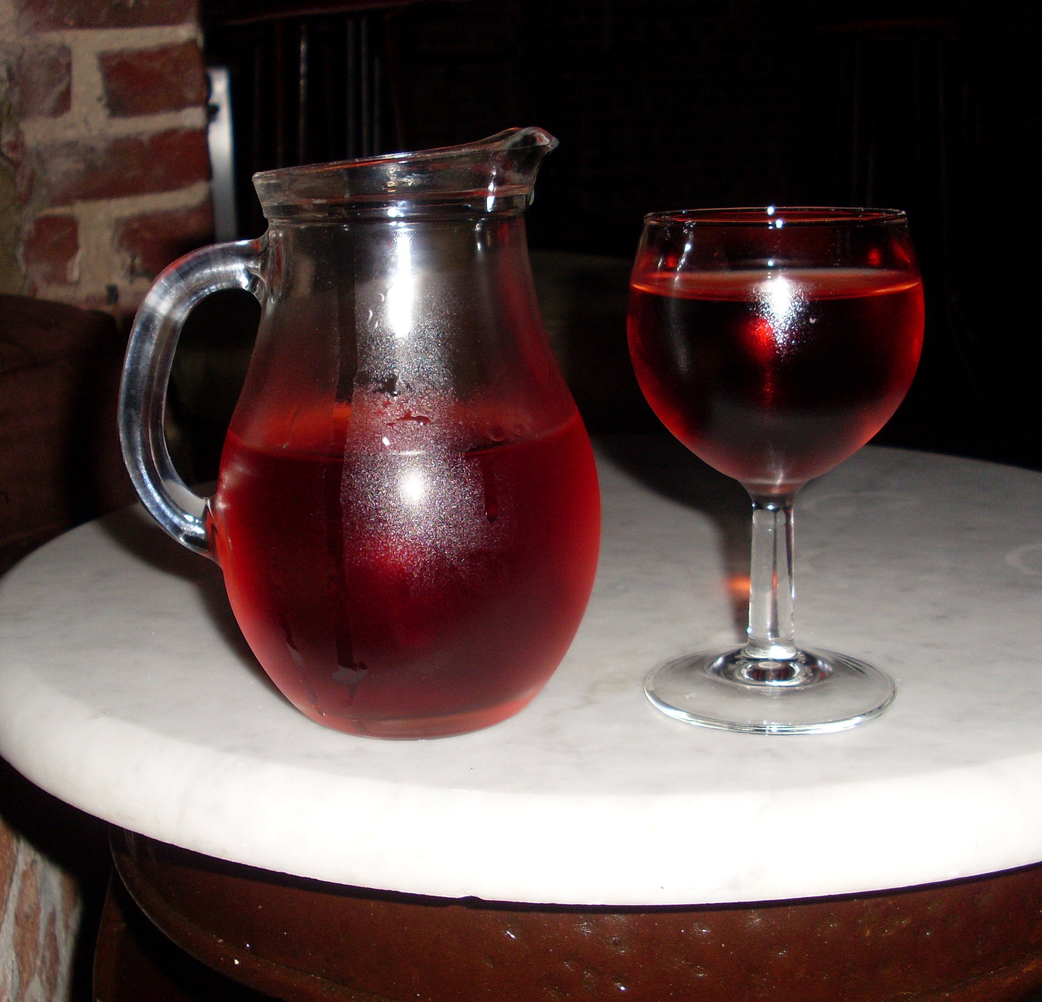 Rosé wine.